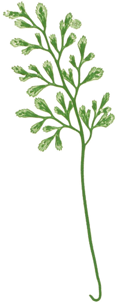 Plate 41, Fig. A5-c, Asplenium ruta-muraria from The Ferns of Great Britain and Ireland (Thomas Moore), 1855.